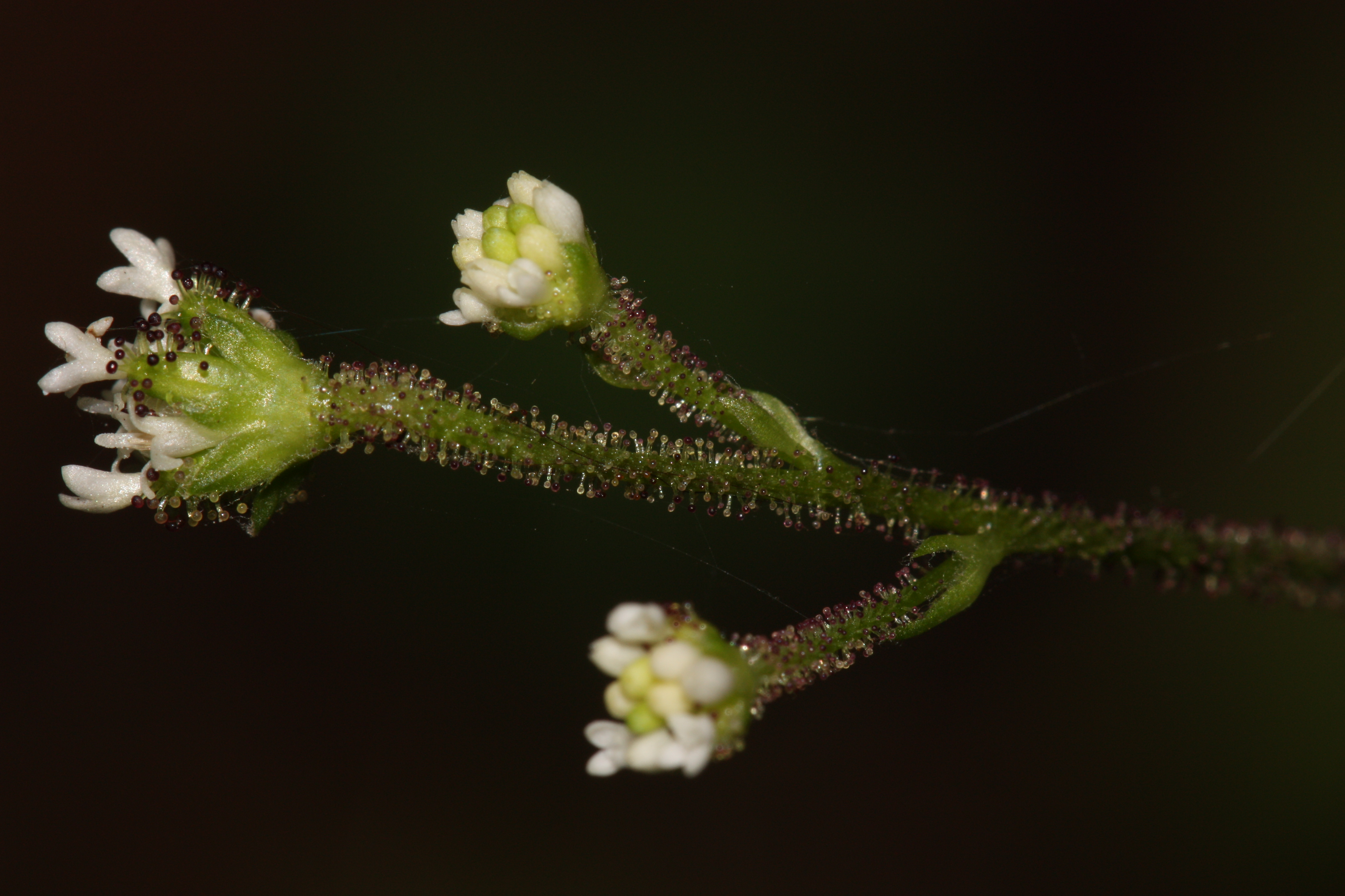 Pathfinder, Trailplant Viewpoint location: Lighthouse Point Trail, Deception Pass State Park Viewpoint elevation: 28 meter (93 ft) Location source: Garmin GPSmap 60CSx Location Datum: WGS84